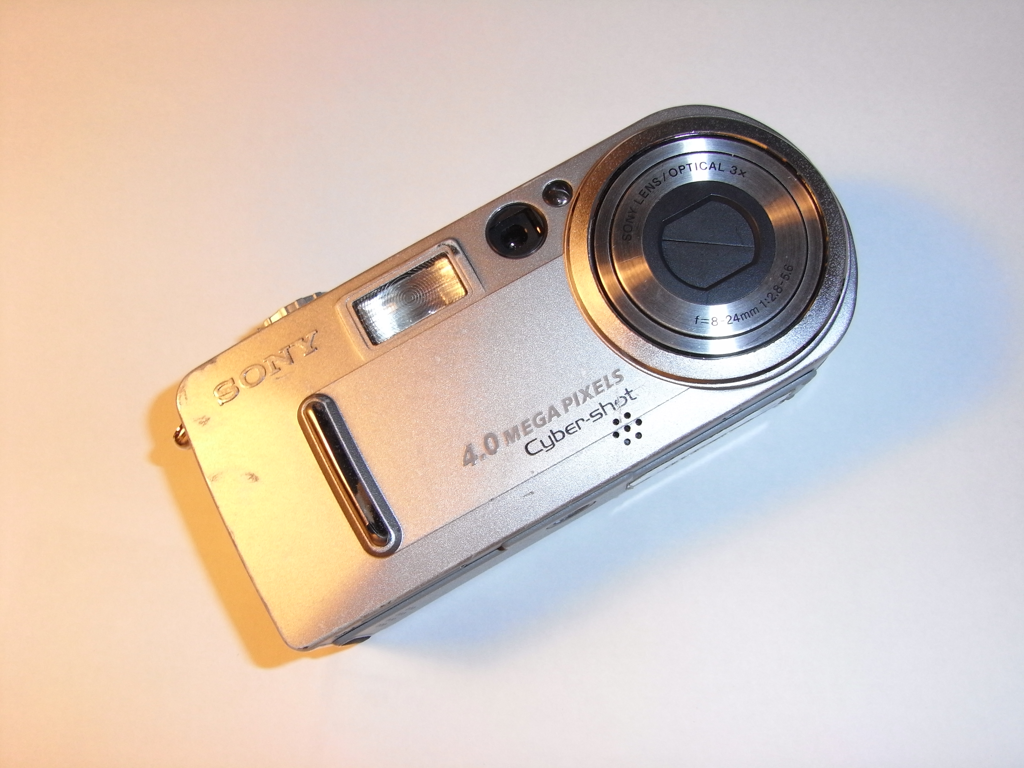 Digital camera Sony Cyber-shot DSC-P9